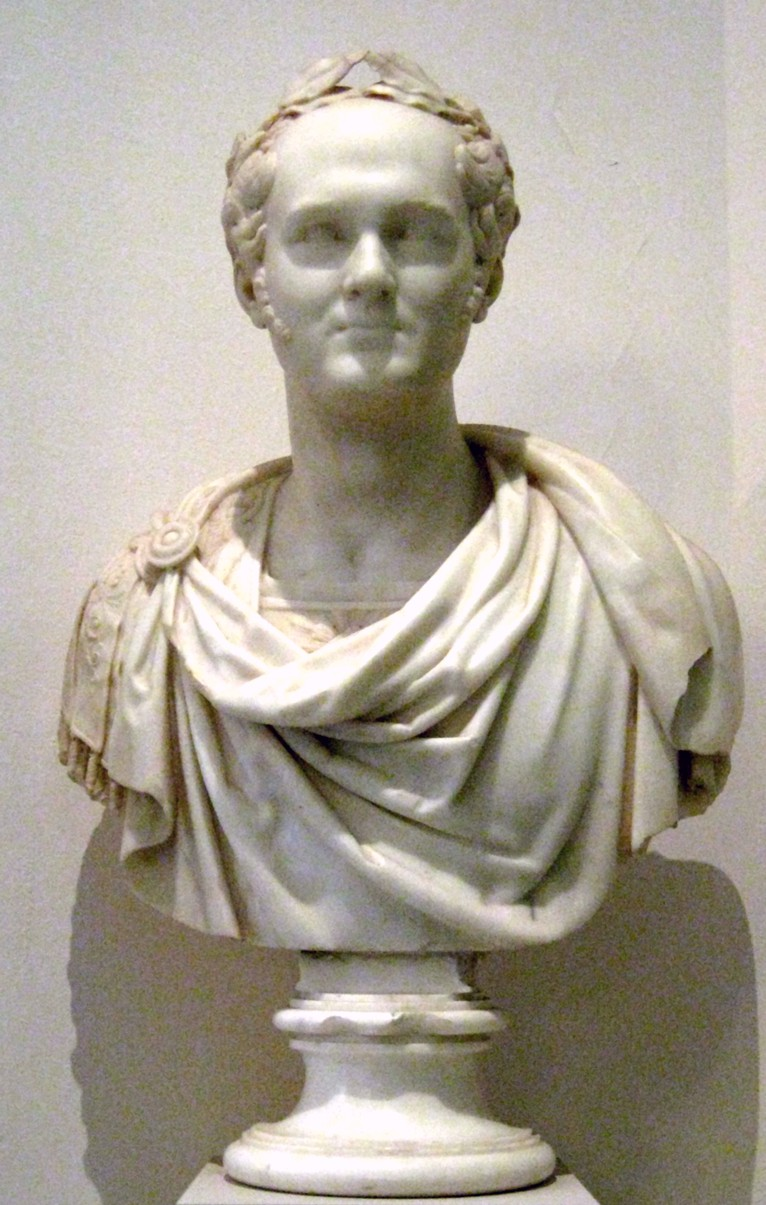 Bust of tsar Alexander I by B.I.Orlovsky (?) 1820s